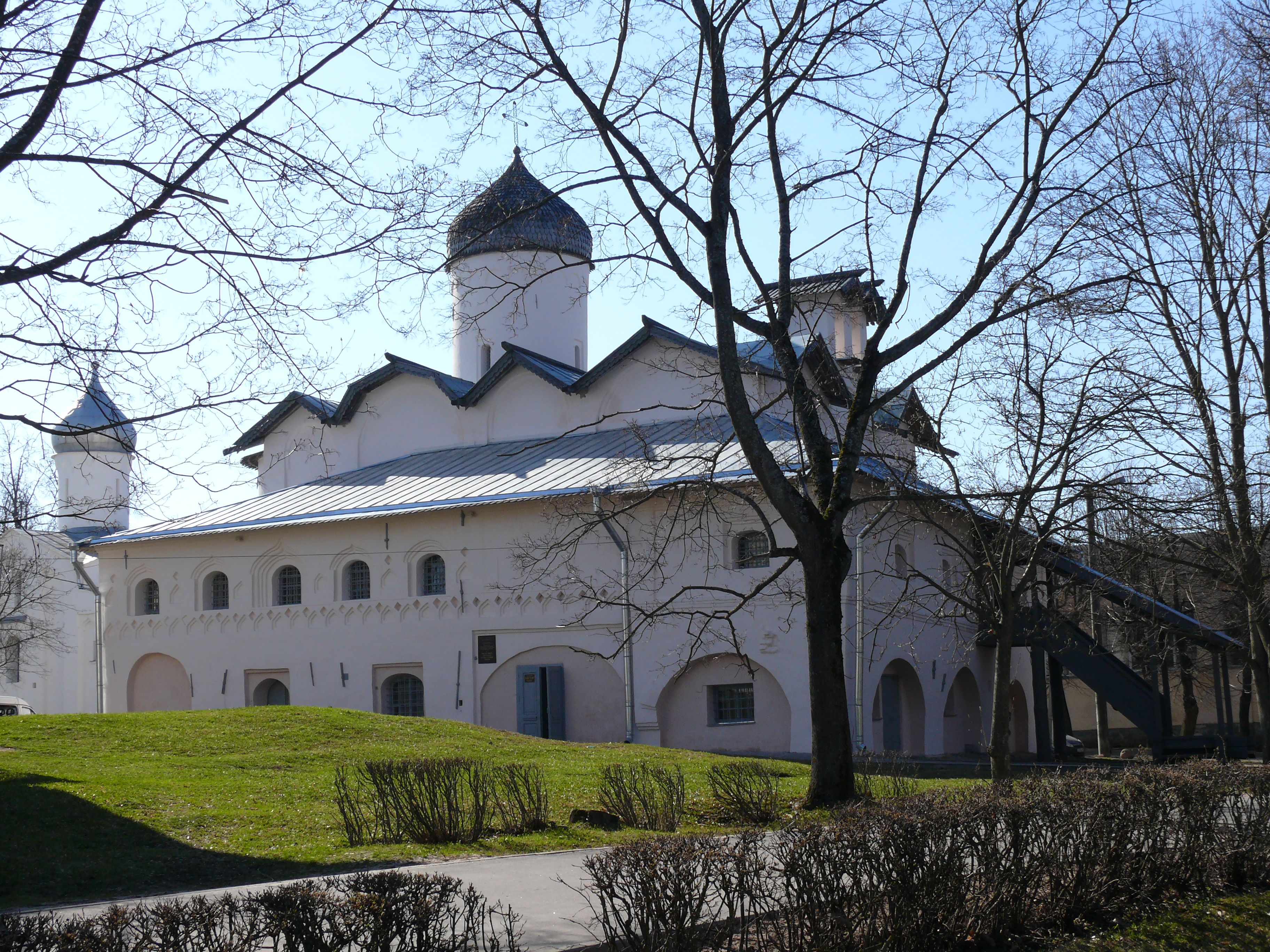 Zion-miromosits churche (Myrrhbearers) in Yaroslav`court. Veliky Novgorod, Russia